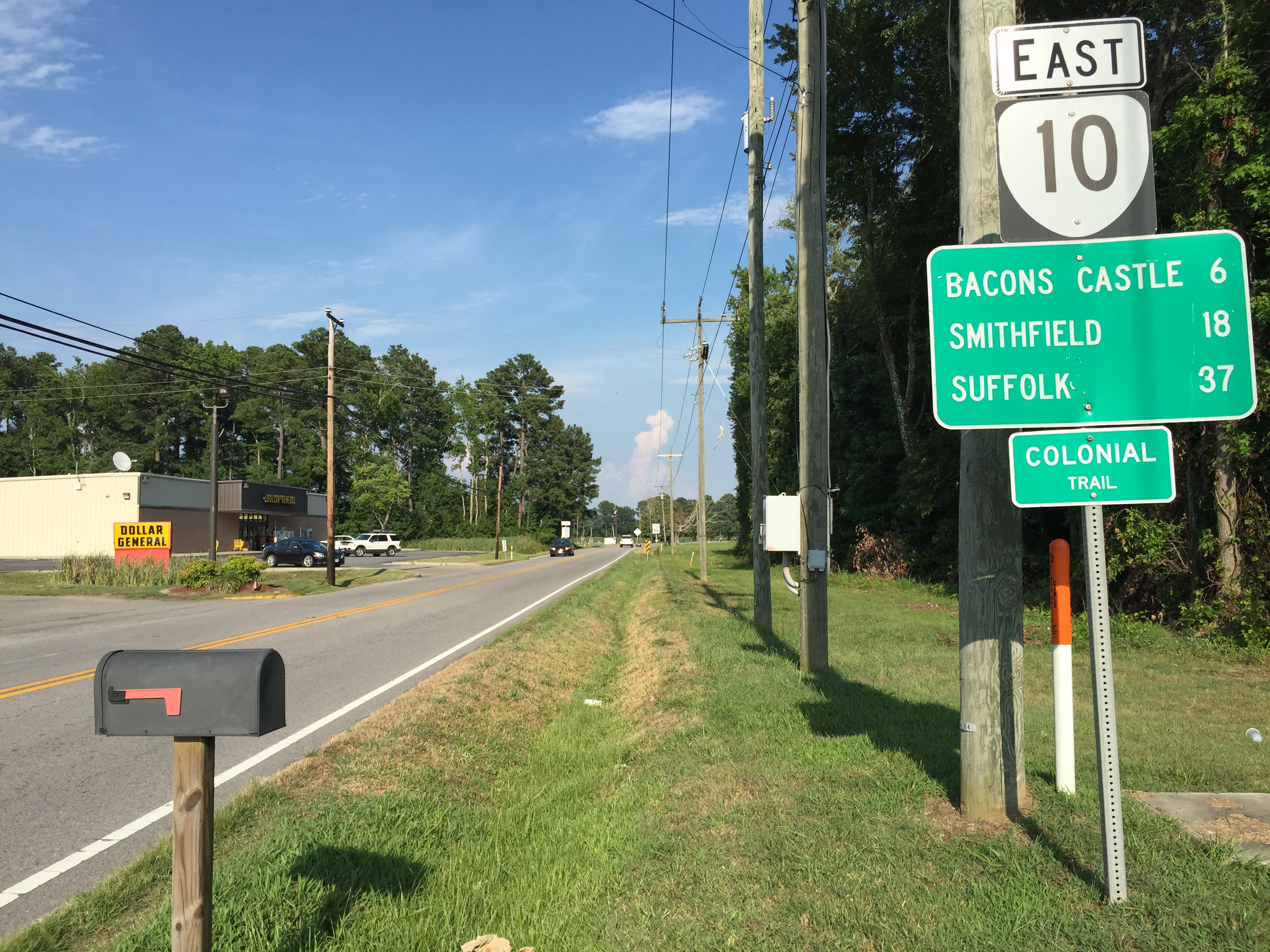 View east along Virginia State Route 10 (Colonial Trail) east of Bank Street in Surry, Surry County, Virginia